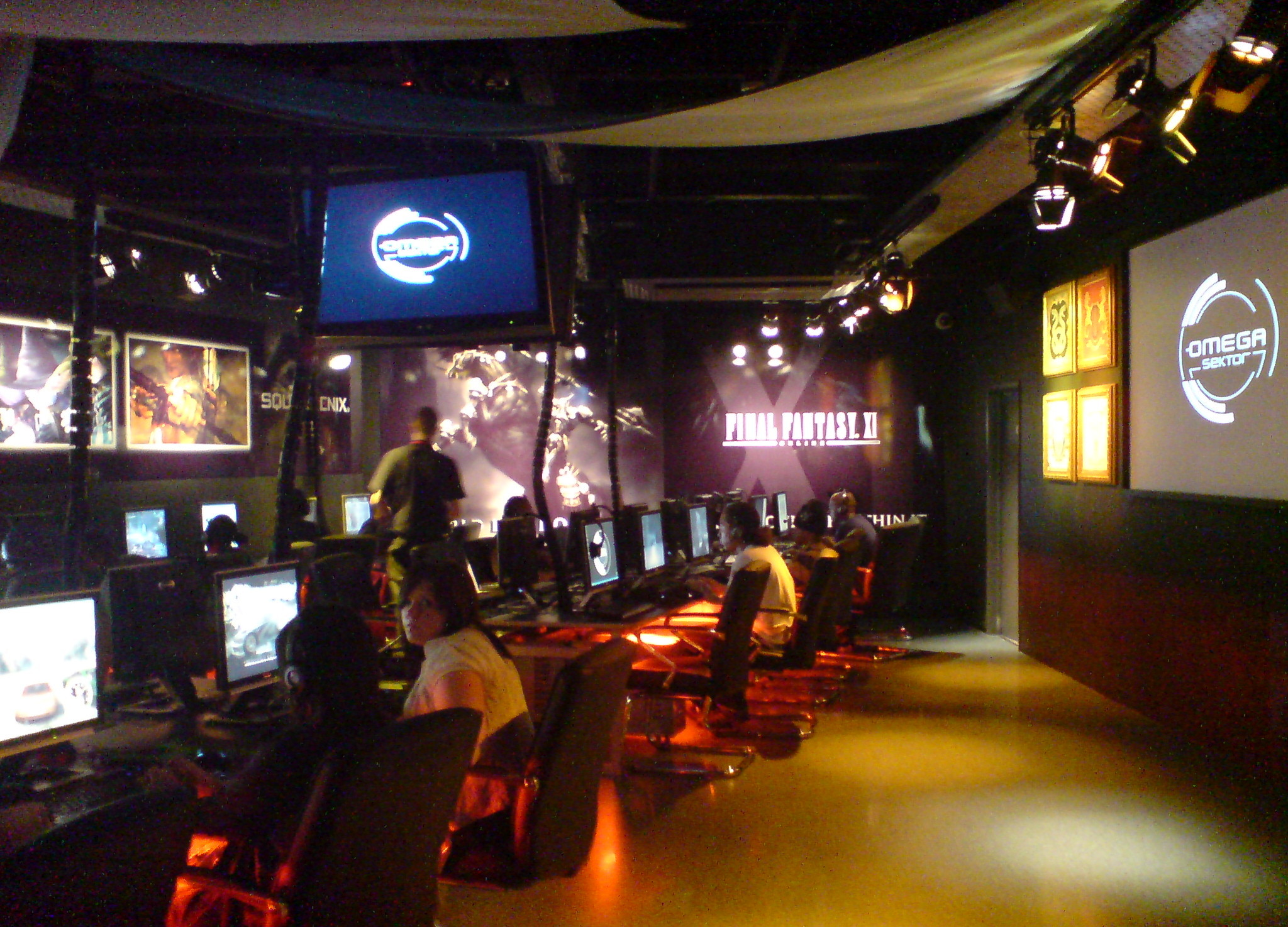 Omega Sektor, in Birmingham, United Kingdom. Picture taken in the Final Fantasy room. I took the pic with my SEk800i cam, sorry for the bad quality but when i use the flash the pic comes out really dark so i had to take it with no flash (and now its not nice), feel free to upload a better pic